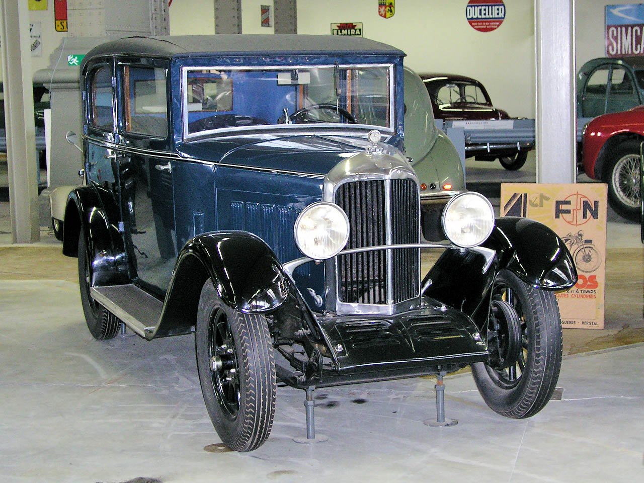 7/25 HP car with 4-cylinder slide-valve engine, made in Belgium by SA des Automobiles Imperia-Excelsior; front-side view